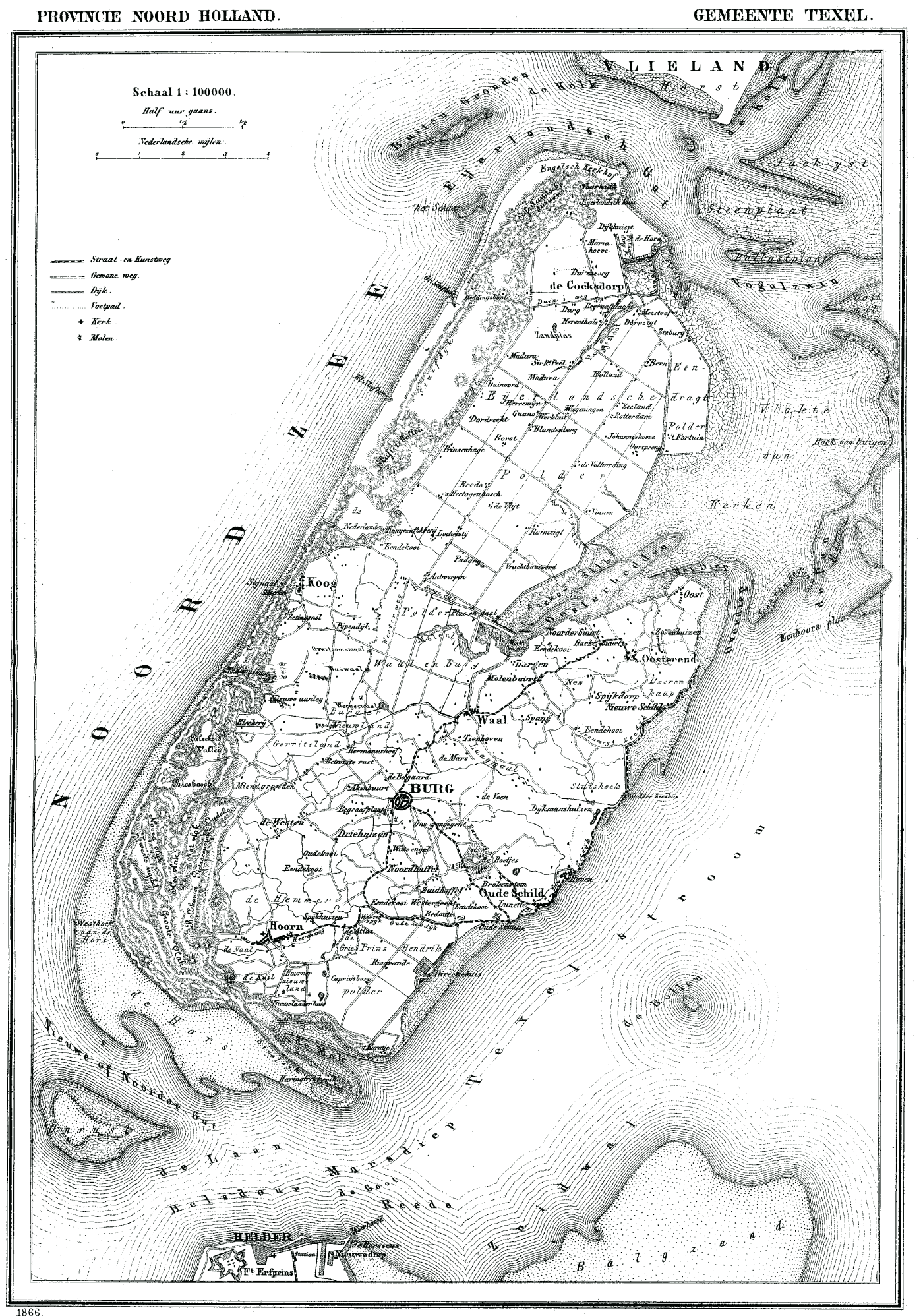 Historic map of Texel, North Holland, the Netherlands